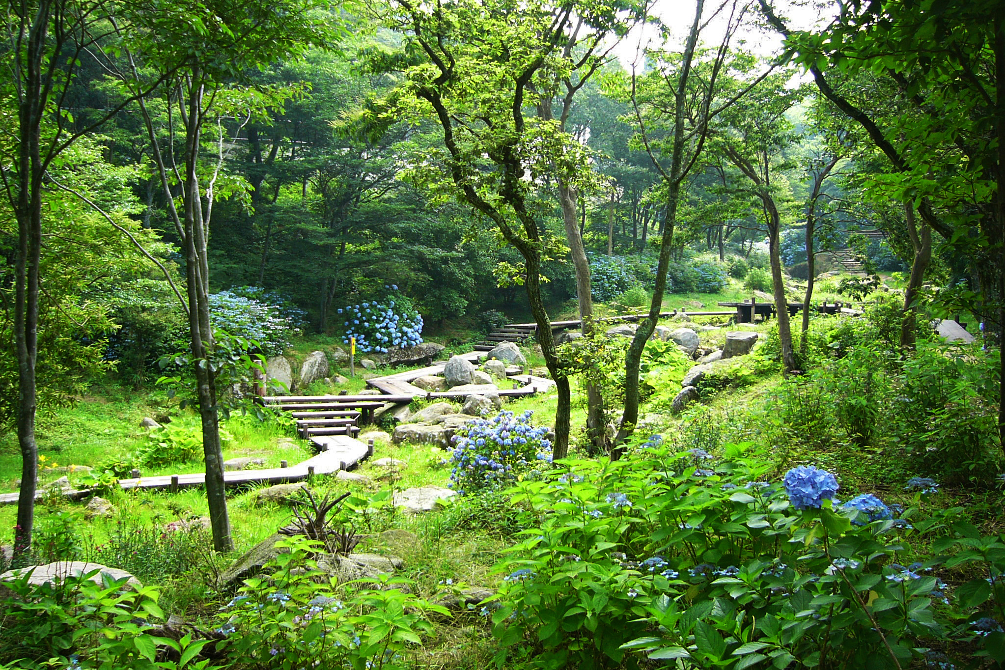 Hall of Halls Rokko in Kobe, Japan